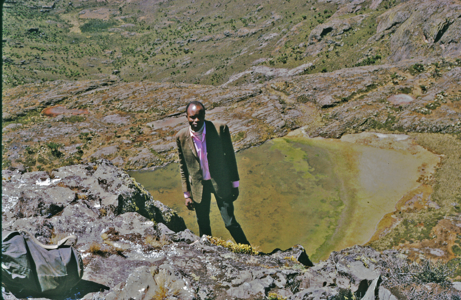 The Sacred Lake, just outside the crater rim and below Sudek